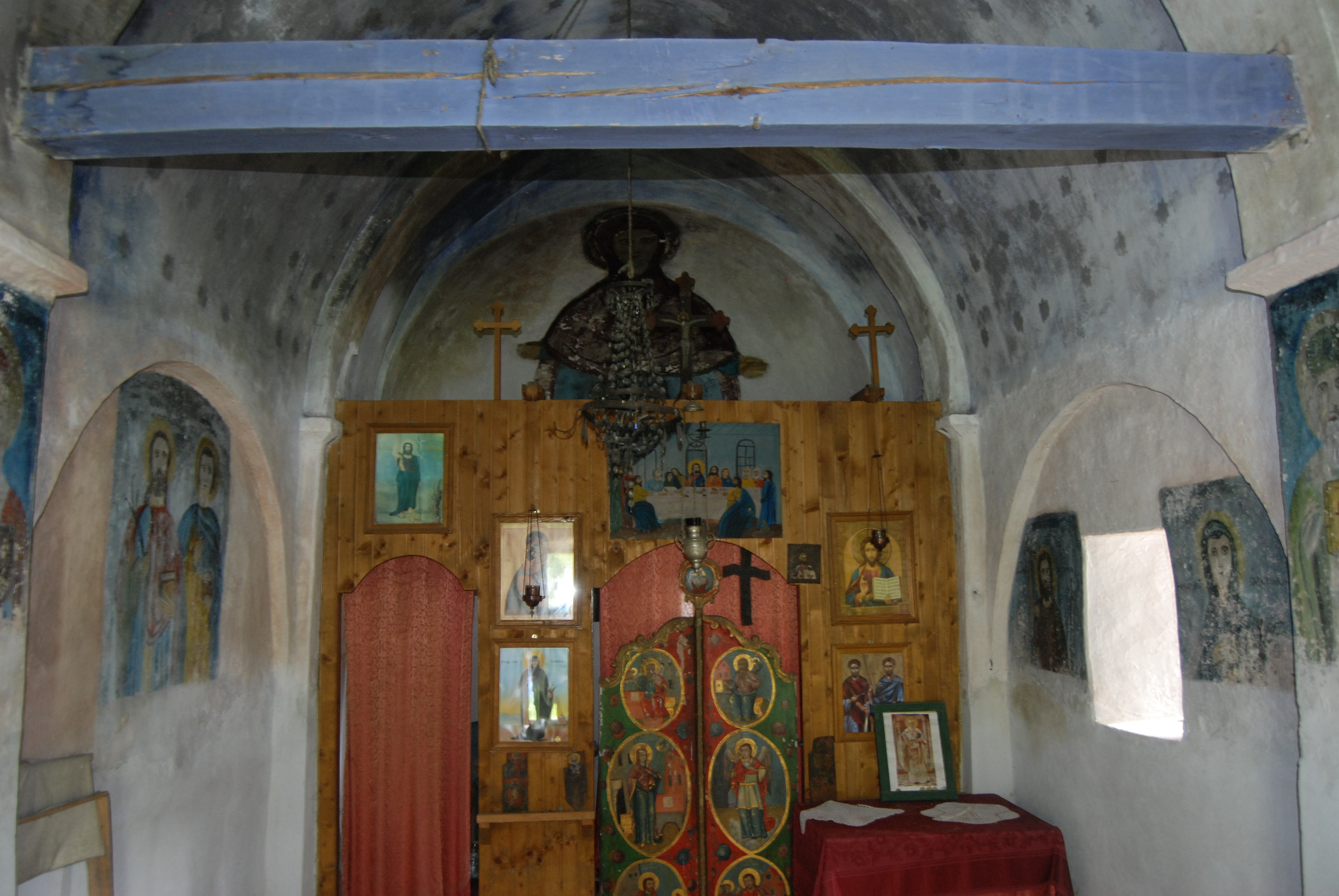 Church of Saints Cosmas and Damian, Ivanjica, Serbia.Српски (ћирилица): Црква Светог Кузмана и Дамјана, Ивањица, Србија.